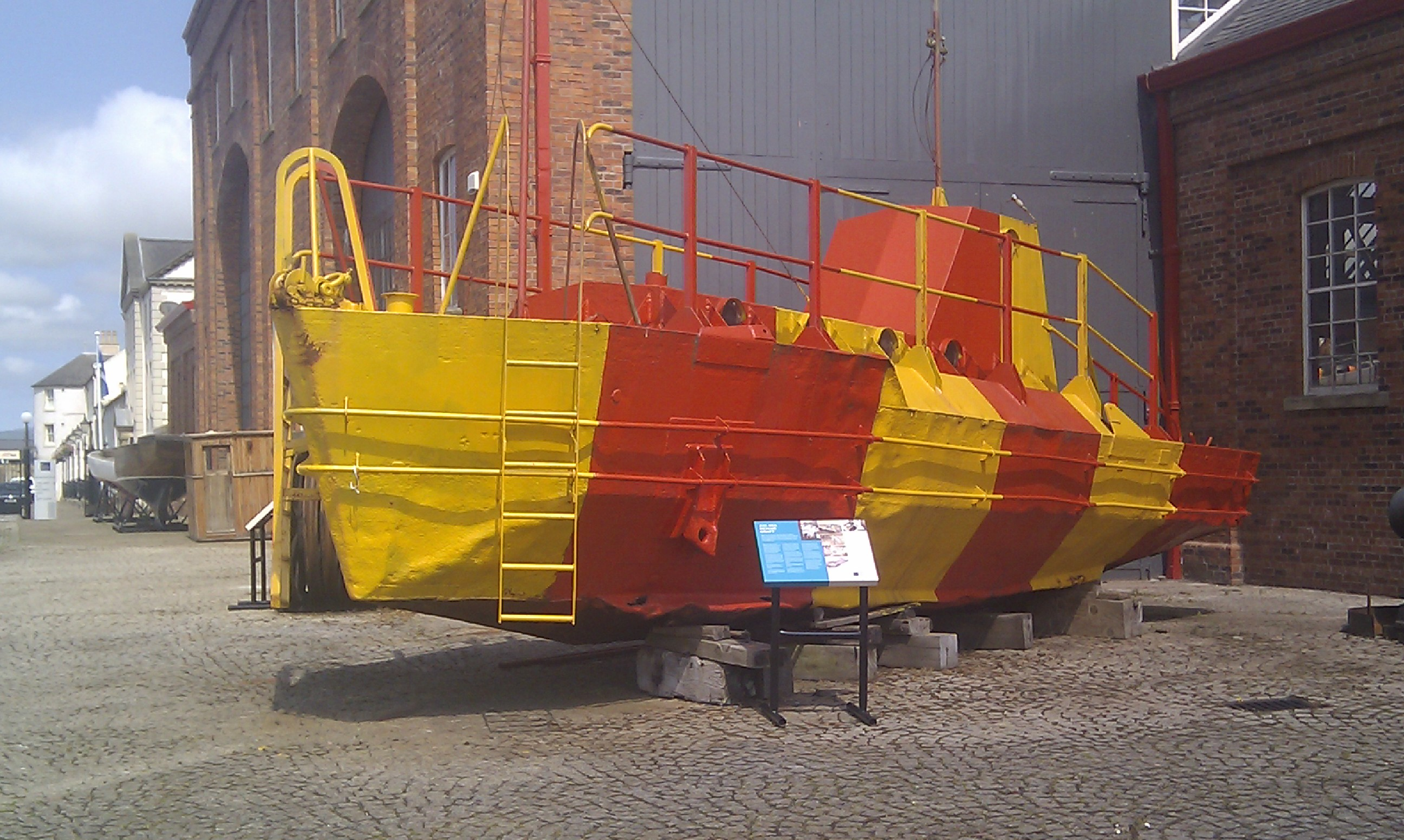 Air-Sea Rescue craft, WW2. Scottish Maritime Museum, Irvine, North Ayrshire, Scotland